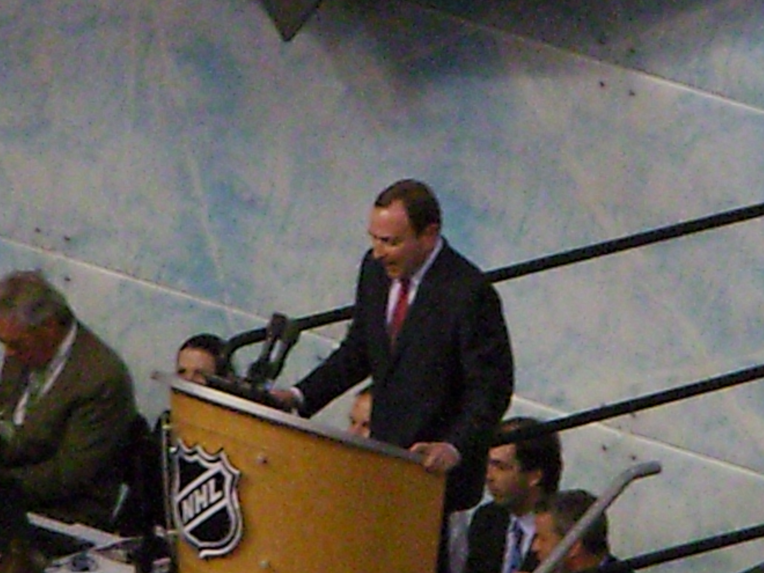 Gary Bettman as master of ceremonies at 2008 Entry Draft in Ottawa, Canada.